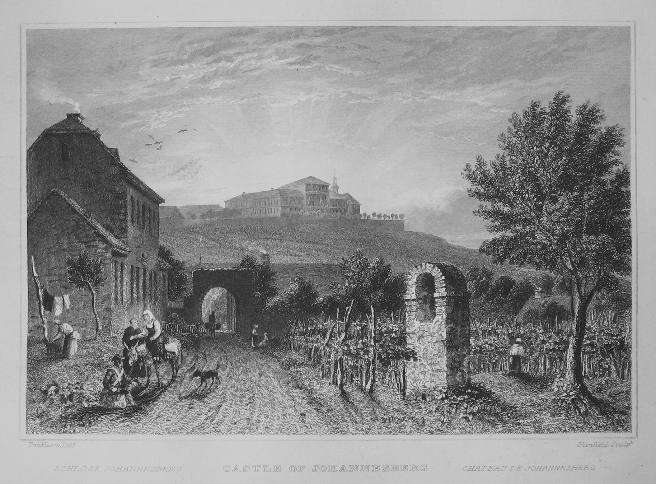 Steel engraving by Shenfield (engraver) after a drawing from William Tombleson`s "Views of the Rhine" (around 1840): Castle of Johannisberg